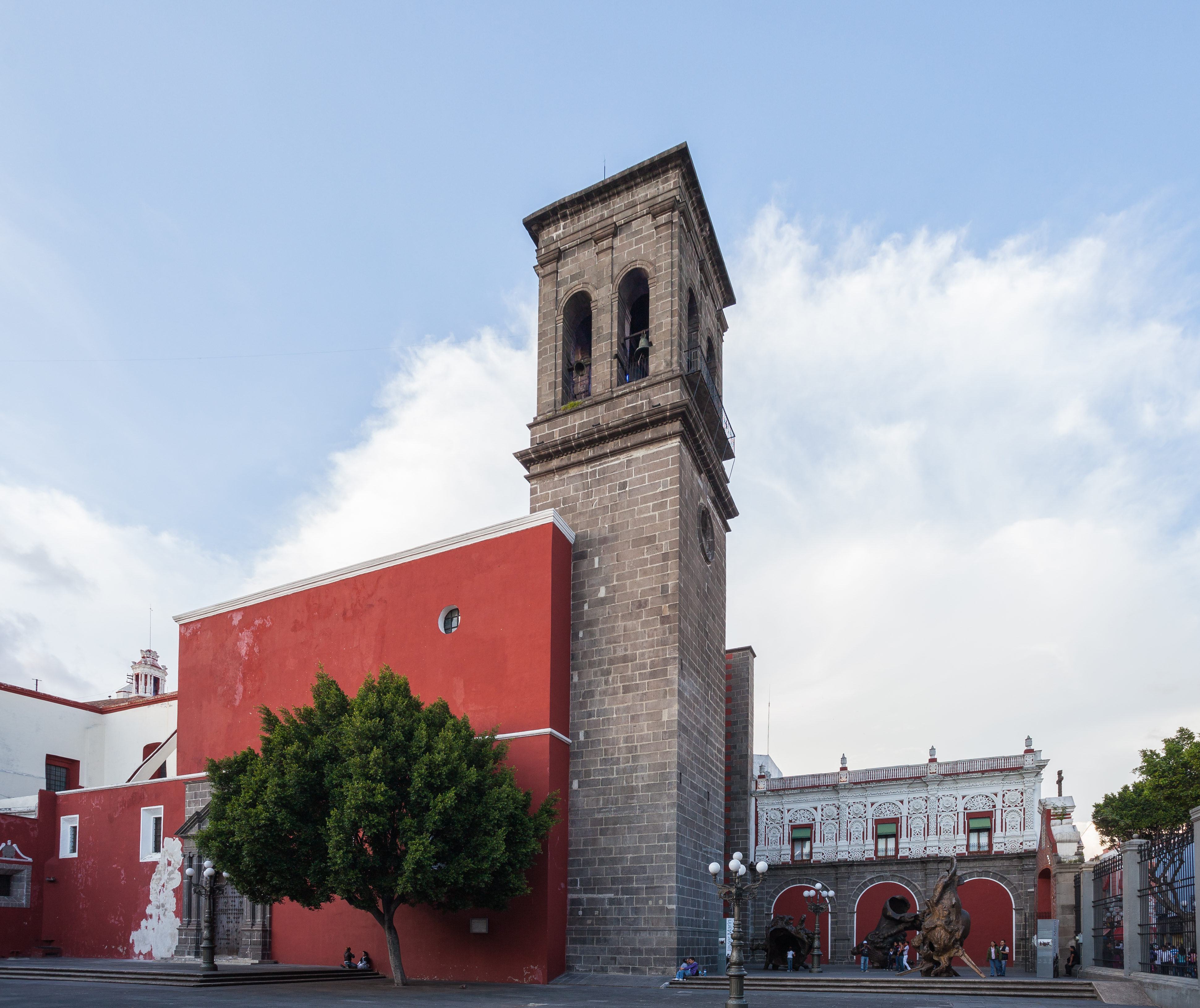 Chapel of the Rosary, Santo Domingo, Puebla, Mexico